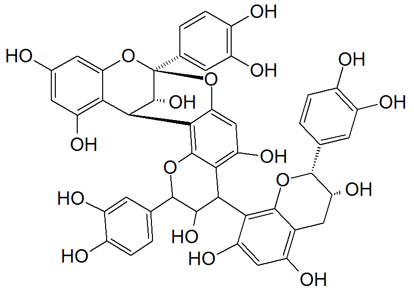 Chemical structure of cinnamtannin B1